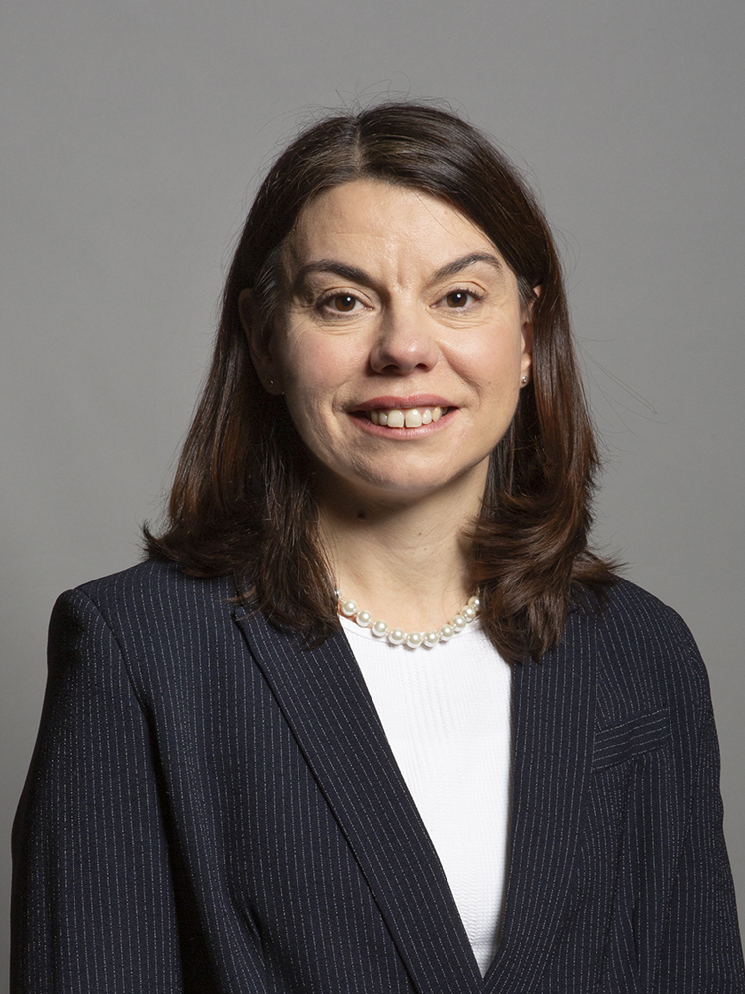 Official portrait of Sarah Olney MP 3×4 portrait of Sarah Olney